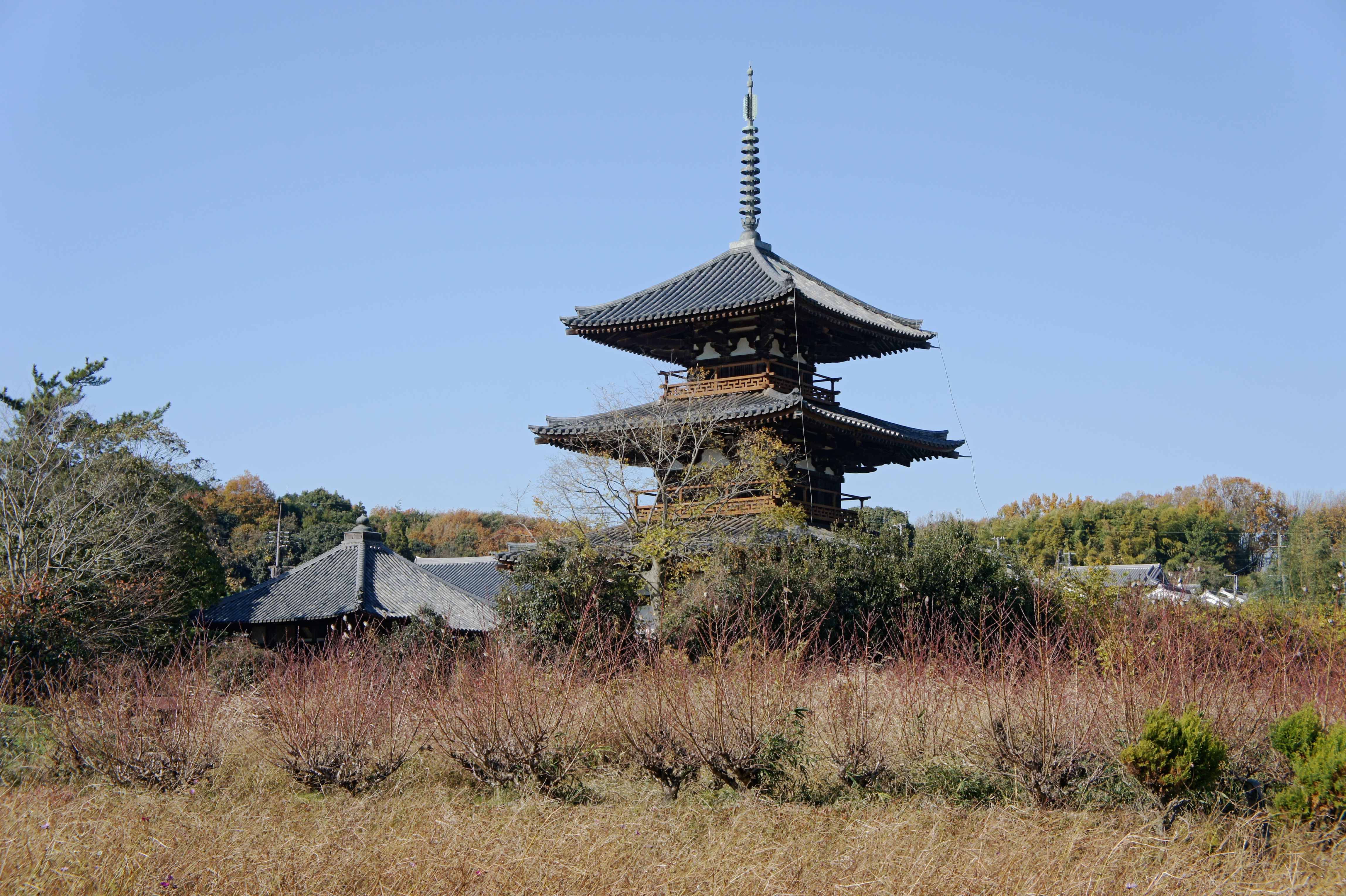 Hokki-ji is a Buddhist temple in Ikaruga, Nara prefecture, Japan. It was registered as part of the UNESCO World Heritage Site "Buddhist Monuments in the Hōryū-ji Area".